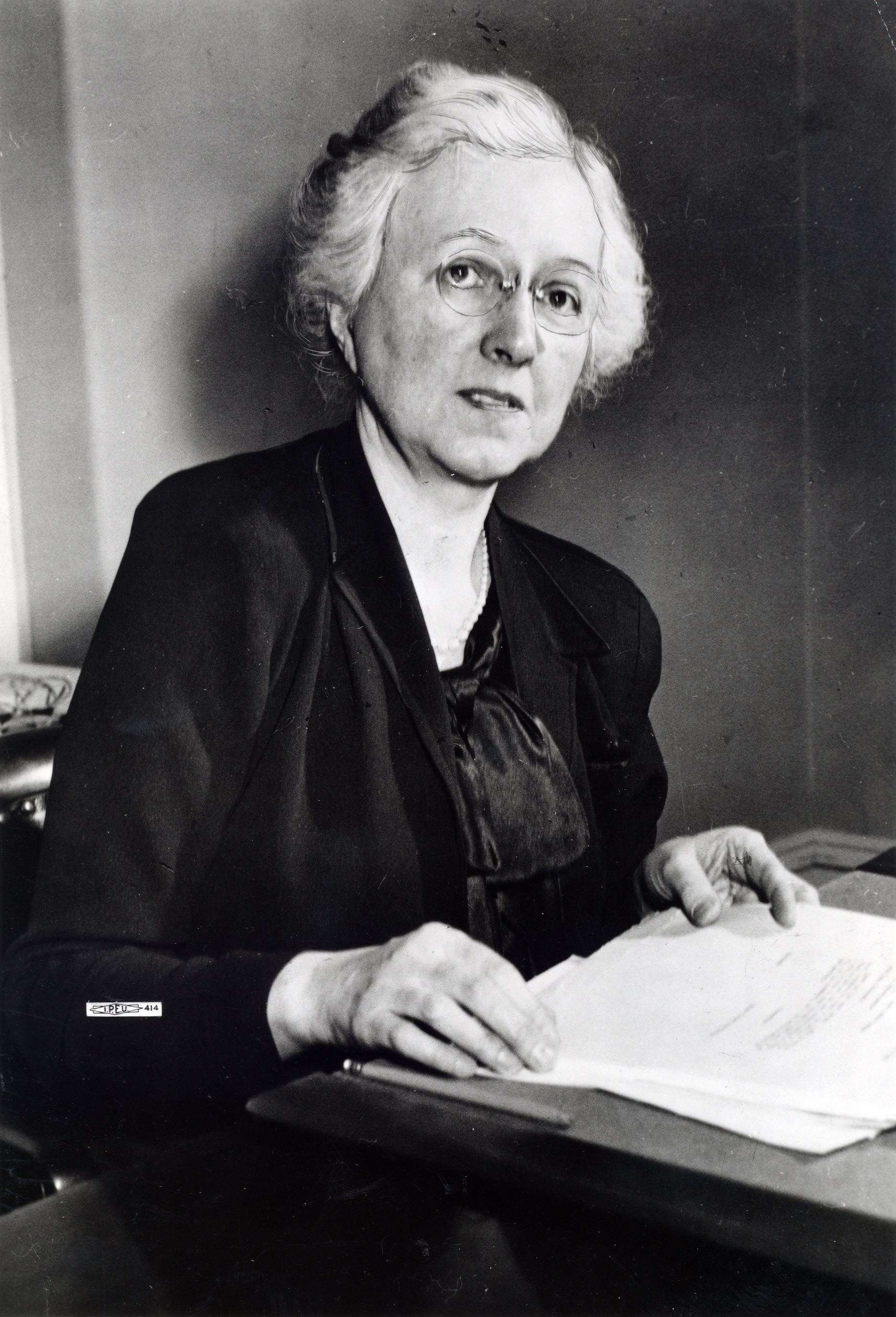 Former Congresswoman Chase Woodhouse of Connecticut.